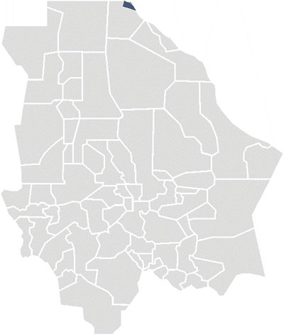 Map of the Third Federal Electoral District of the State of Chihuahua, México.